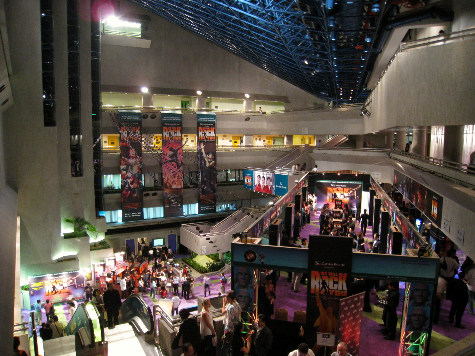 Hong Kong Academy For Performing Arts Void